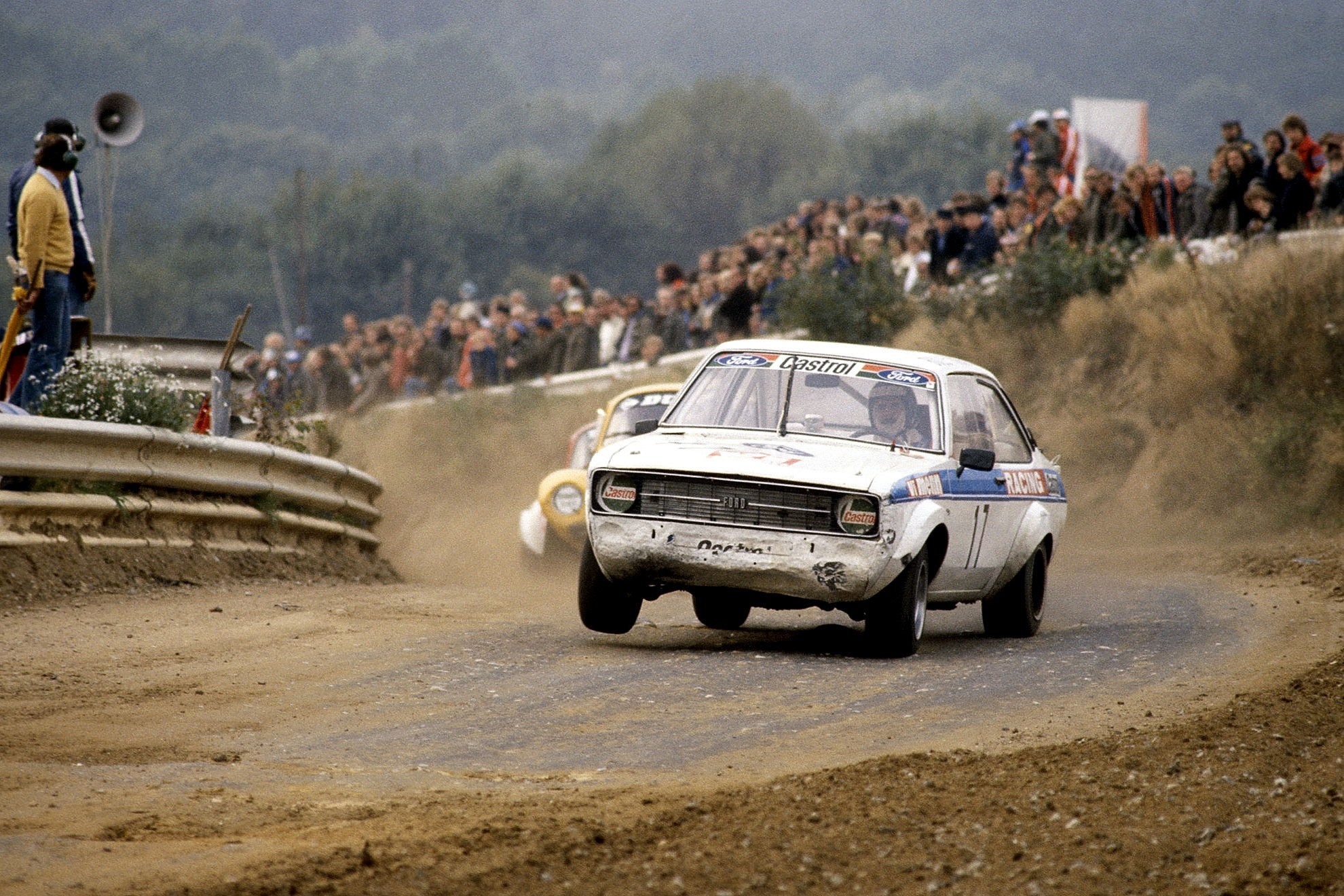 Norwegian Gunnar Kittilsen (Ford Escort RS1800) pictured during the 1979 FIA European Rallycross Championship round at the Estering at Buxtehude in Germany.